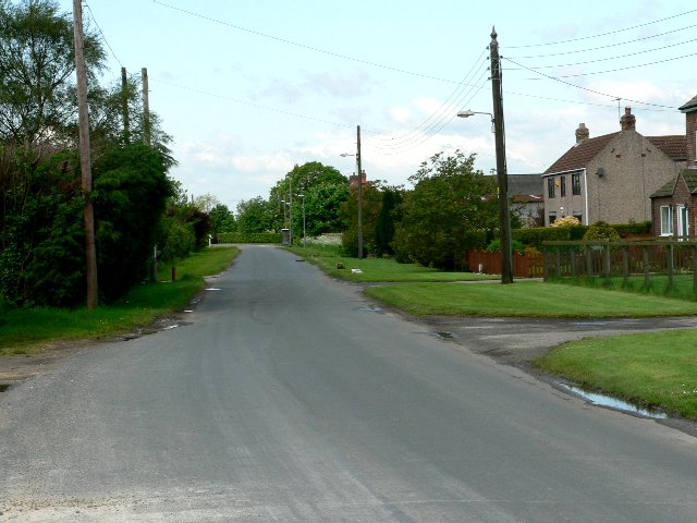 Old Trough Lane, Hive, East Riding of Yorkshire, England.